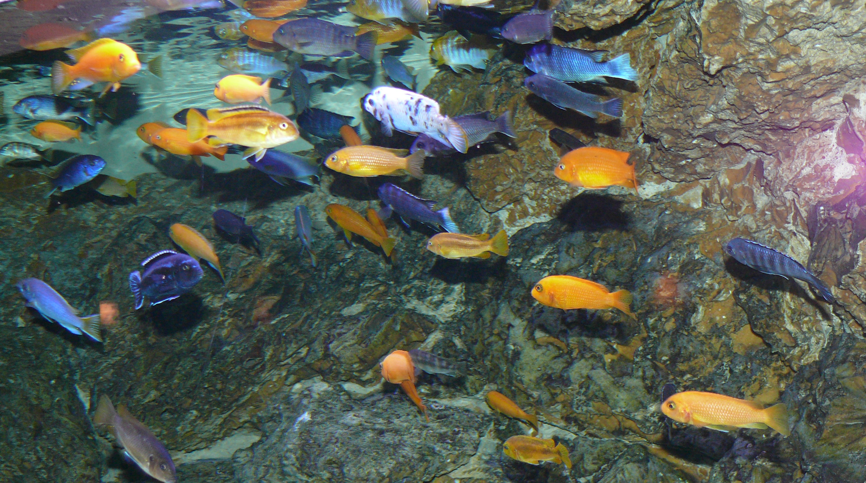 different Mbuna from Lake Malawi